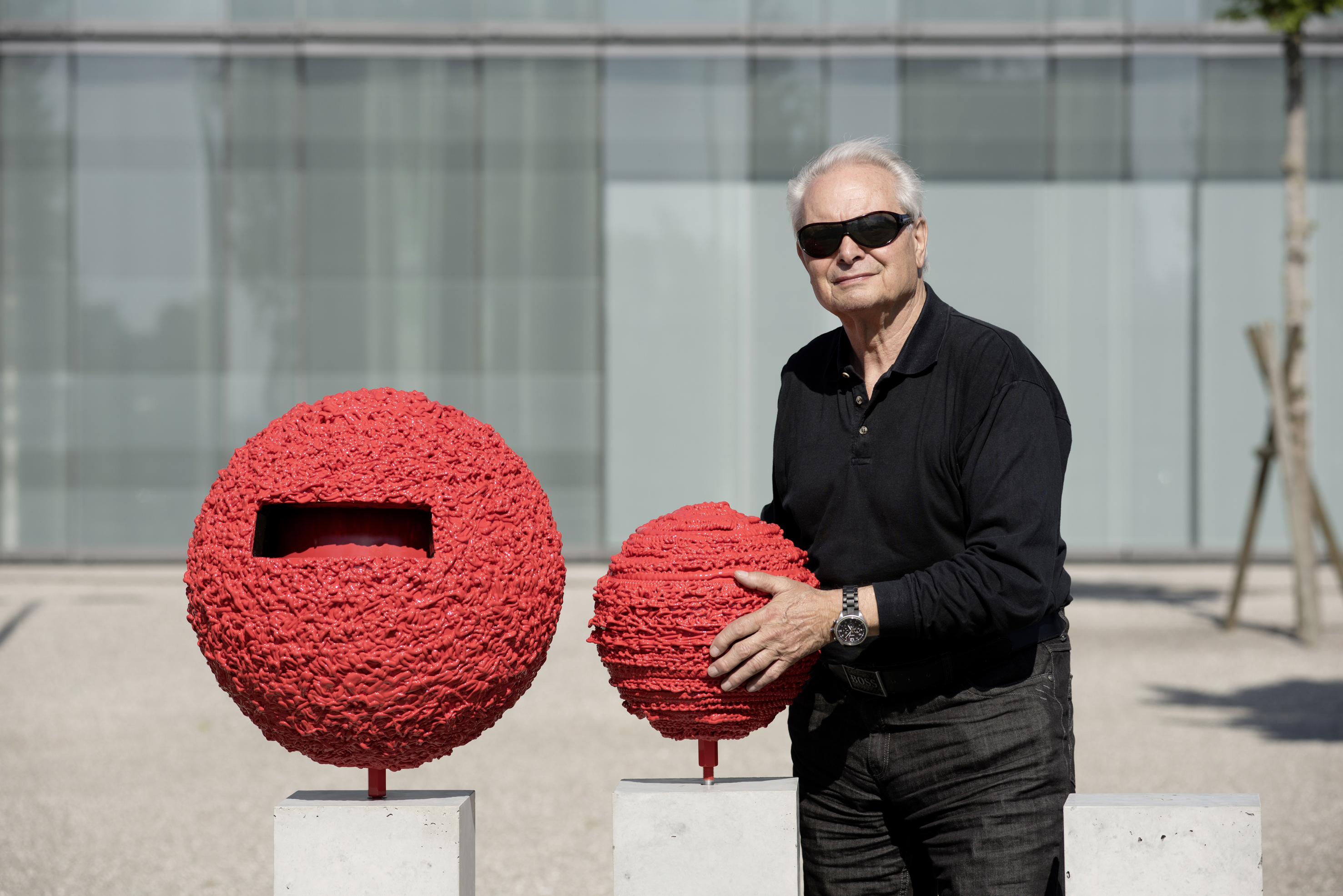 Portrait John Stutz (june 2015)